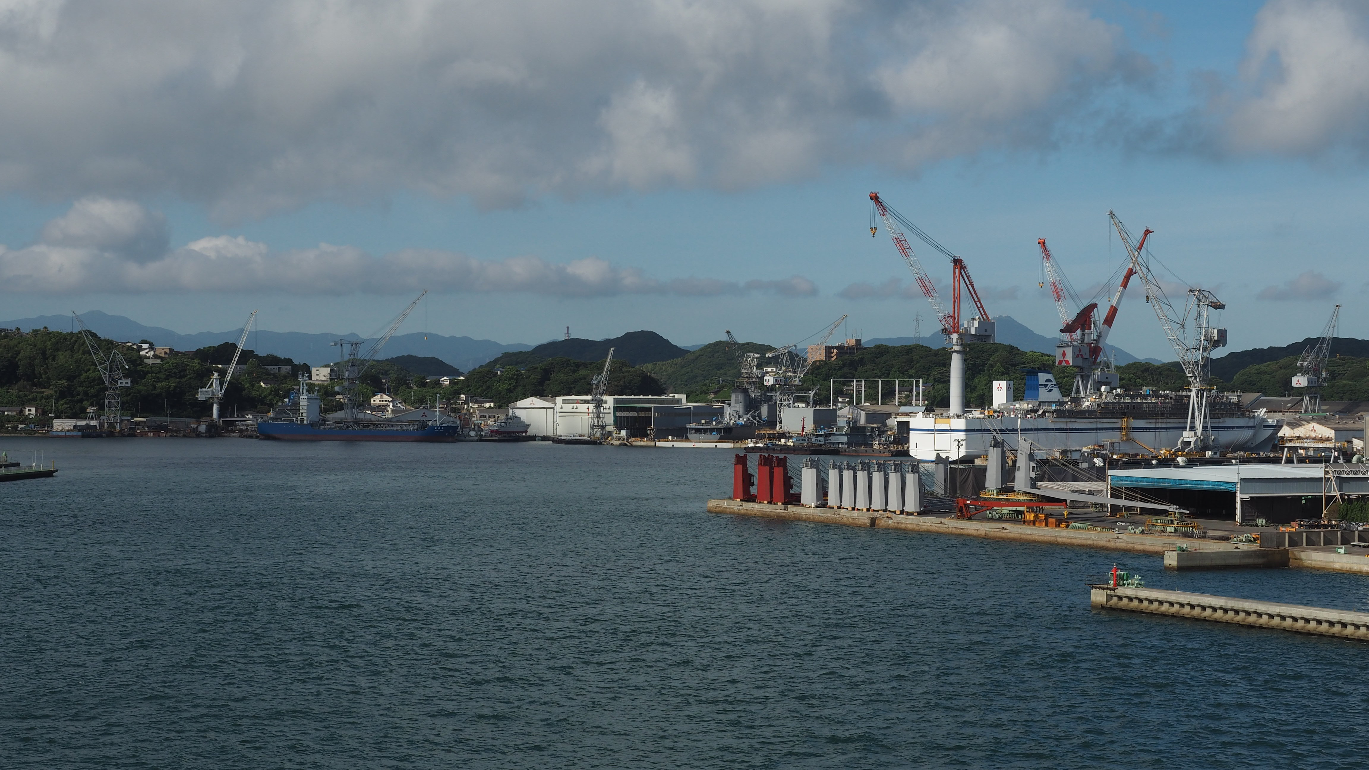 MHI Shimonoseki Shipyard & Machinery Works